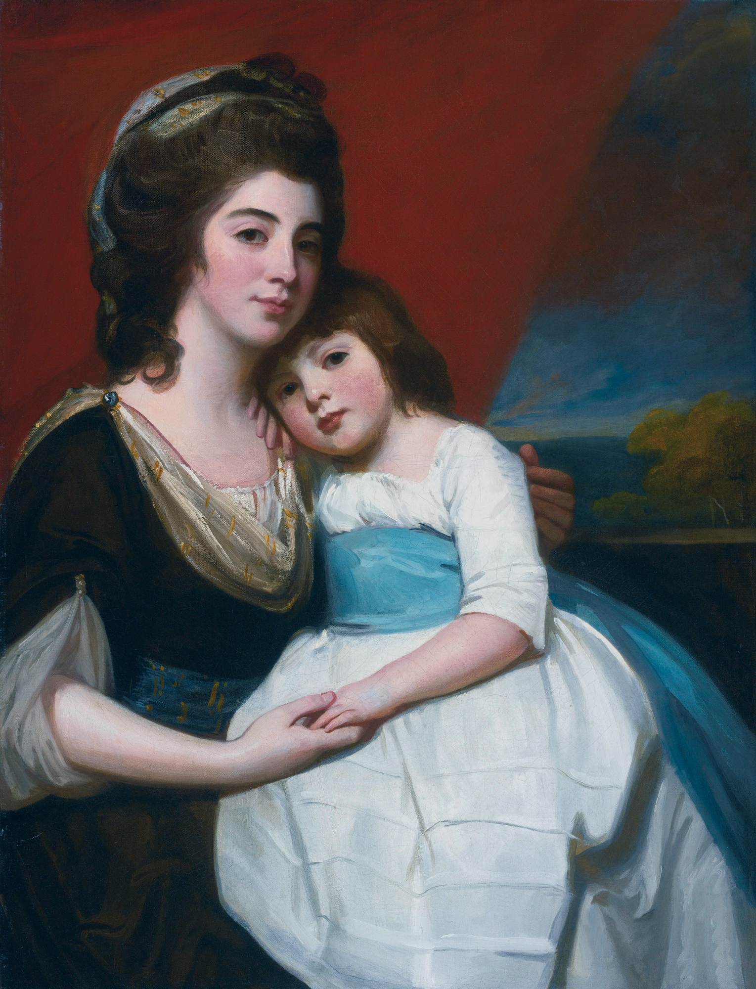 Lady Georgina Smyth (circa 1757-1799) and her son oil on canvas 99 by 76.5 cm 1783